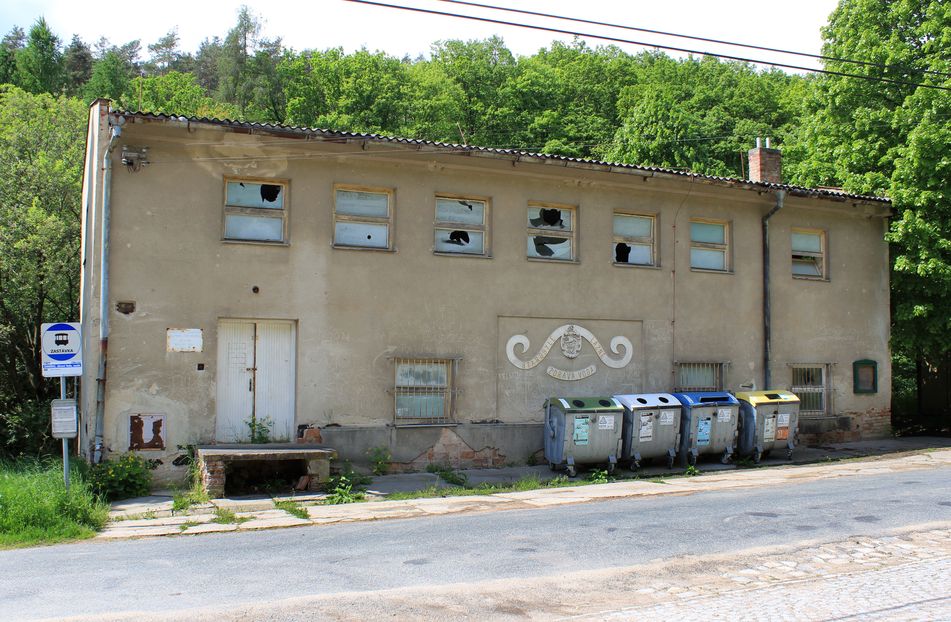 Old spa in Zdravá Voda, part of Žarošice, Czech Republic.